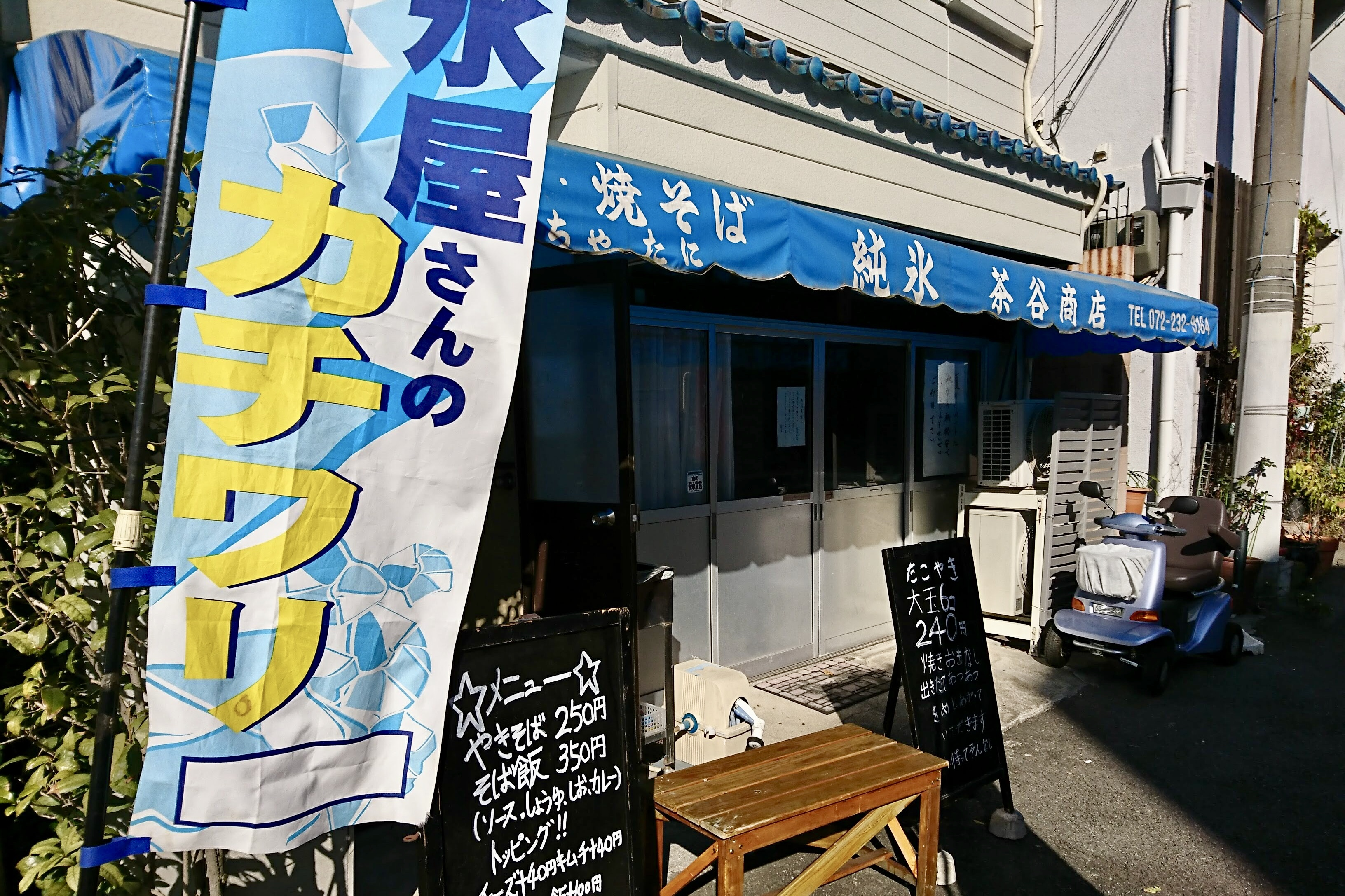 An ice shop